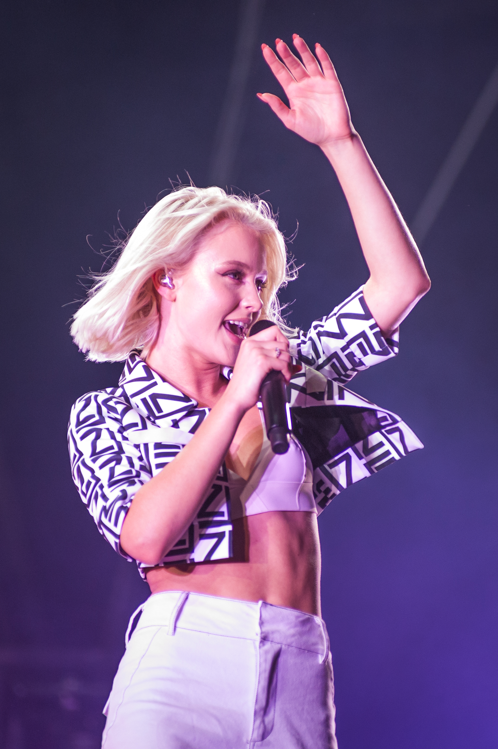 Swedish singer Zara Larsson performing at the 2018 Ilosaarirock festival in Joensuu, Finland.